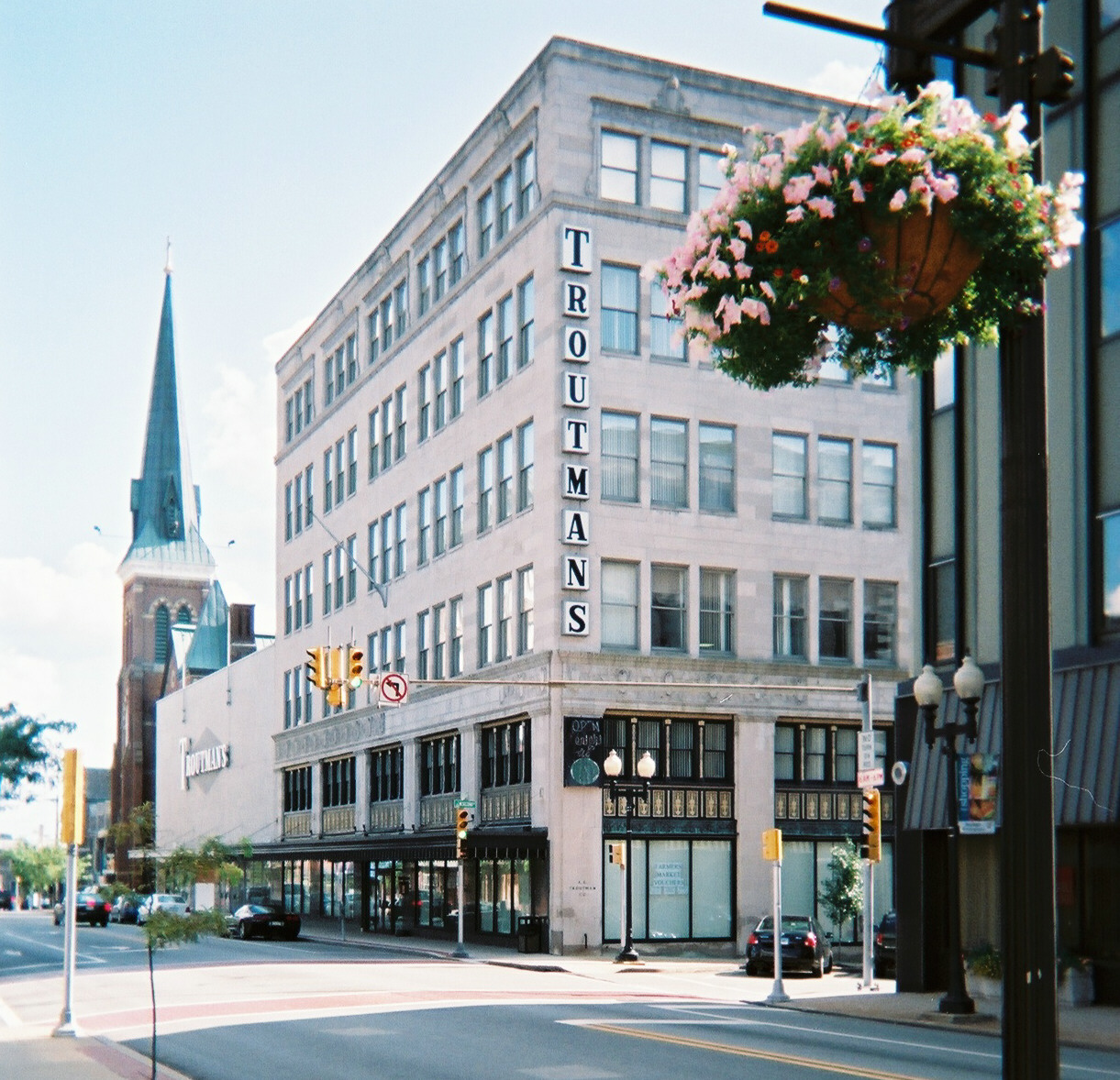 Troutman's Department Store, 202-226 South Main Street (at corner of West Second Street), Greensburg, Pennsylvania. Built: 1923. Architect: Paul Bartholomew.